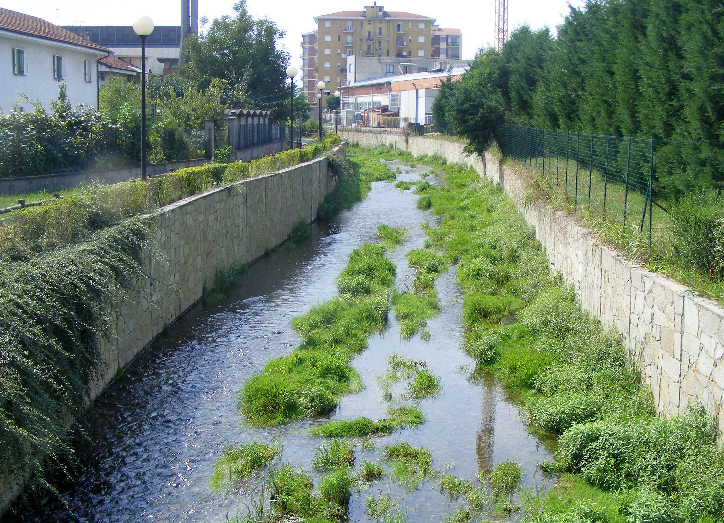 Brandizzo: cycling path along Bendola creek (on the left)